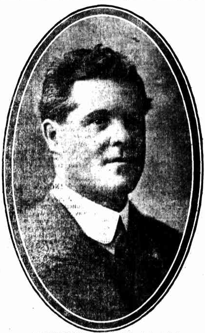 Christian Helleman (-1953) Australian composer, organist